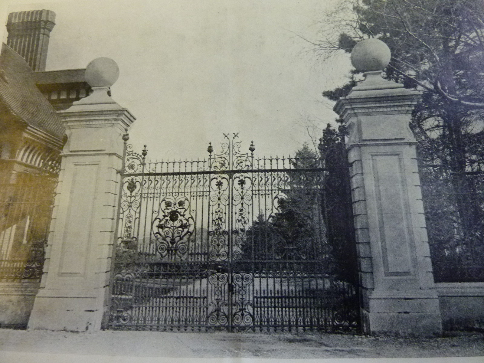 Main entrance gates (now removed) to the former Berry Hall from South Lodge on Marsh Lane in Solihull